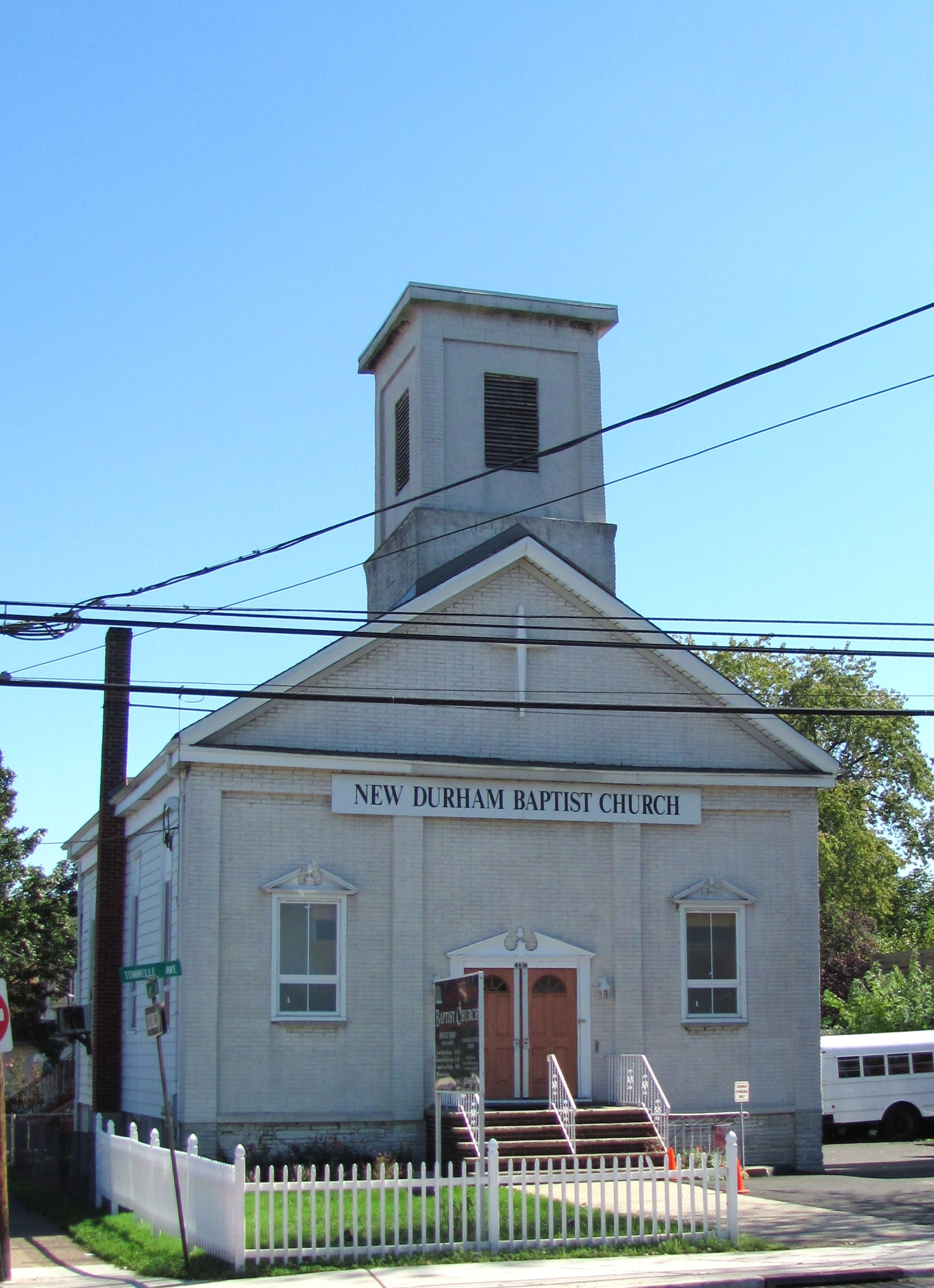 New Durham Baptist Church.